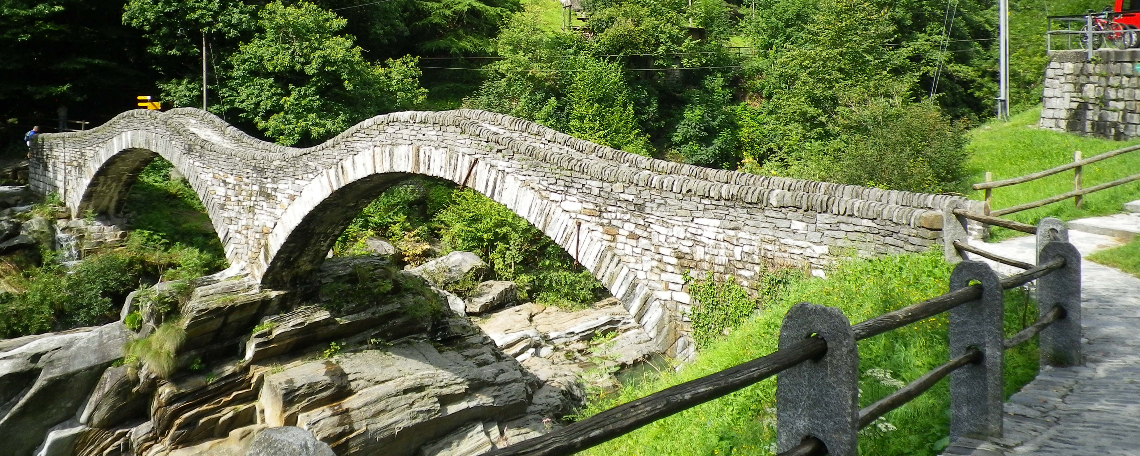 A version of File:Roman_era_stone_arch_bridge,_Ticino,_Switzerland.JPG, from the Wikimedia Commons, cropped in height for the Wikipedia article